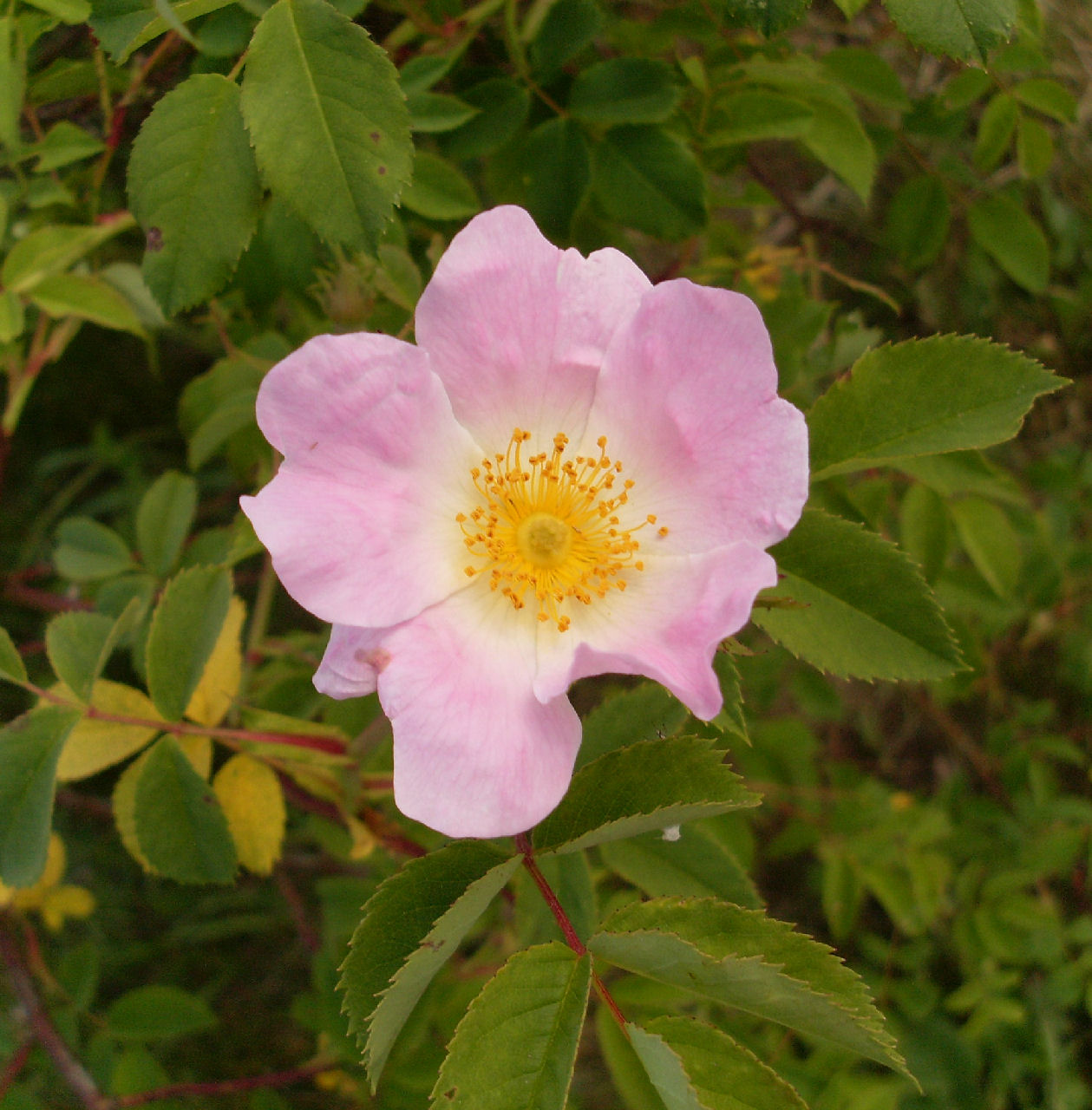 Rosa dumalis, picture taken i south Sweden